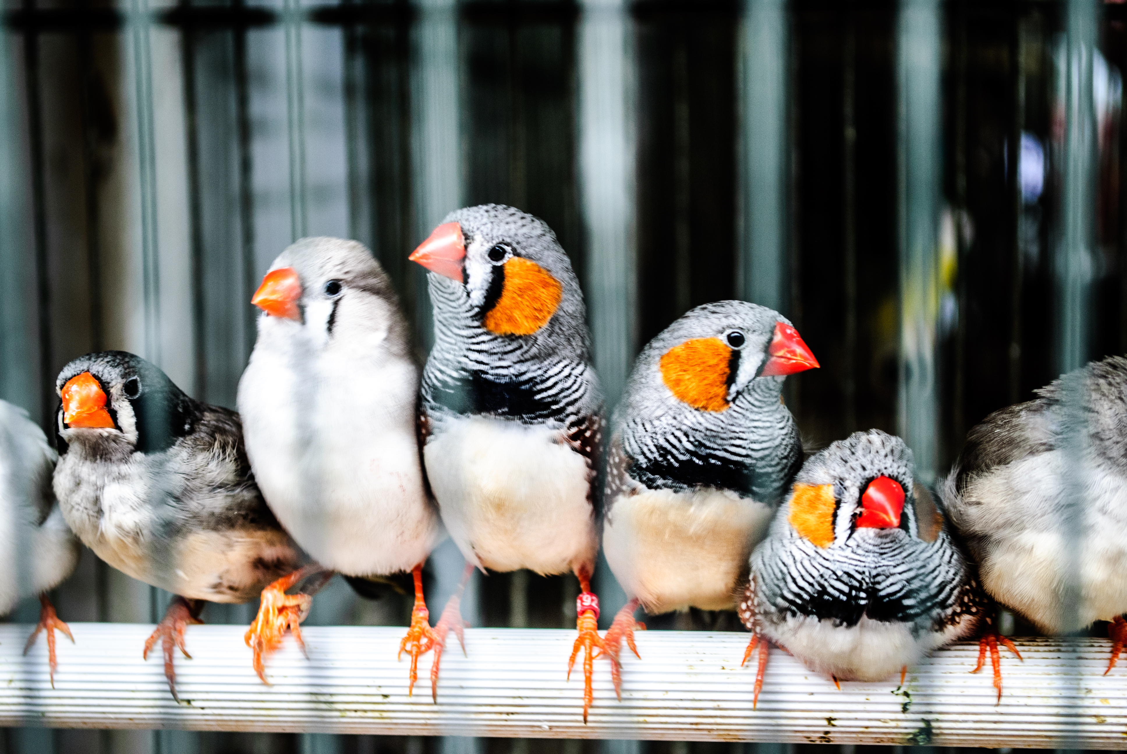 being sold at the birdfair in Porto, Portugal.